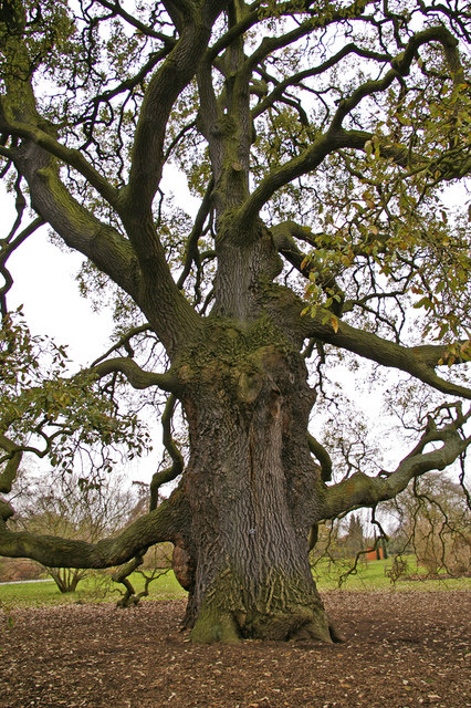 Lucombe Oak (Quercus x hispanica 'Lucombeana' ) Main trunk of the Lucombe Oak at Kew Gardens. As can be seen this tree is only semi deciduous, only losing its leaves in the spring when new ones grow.